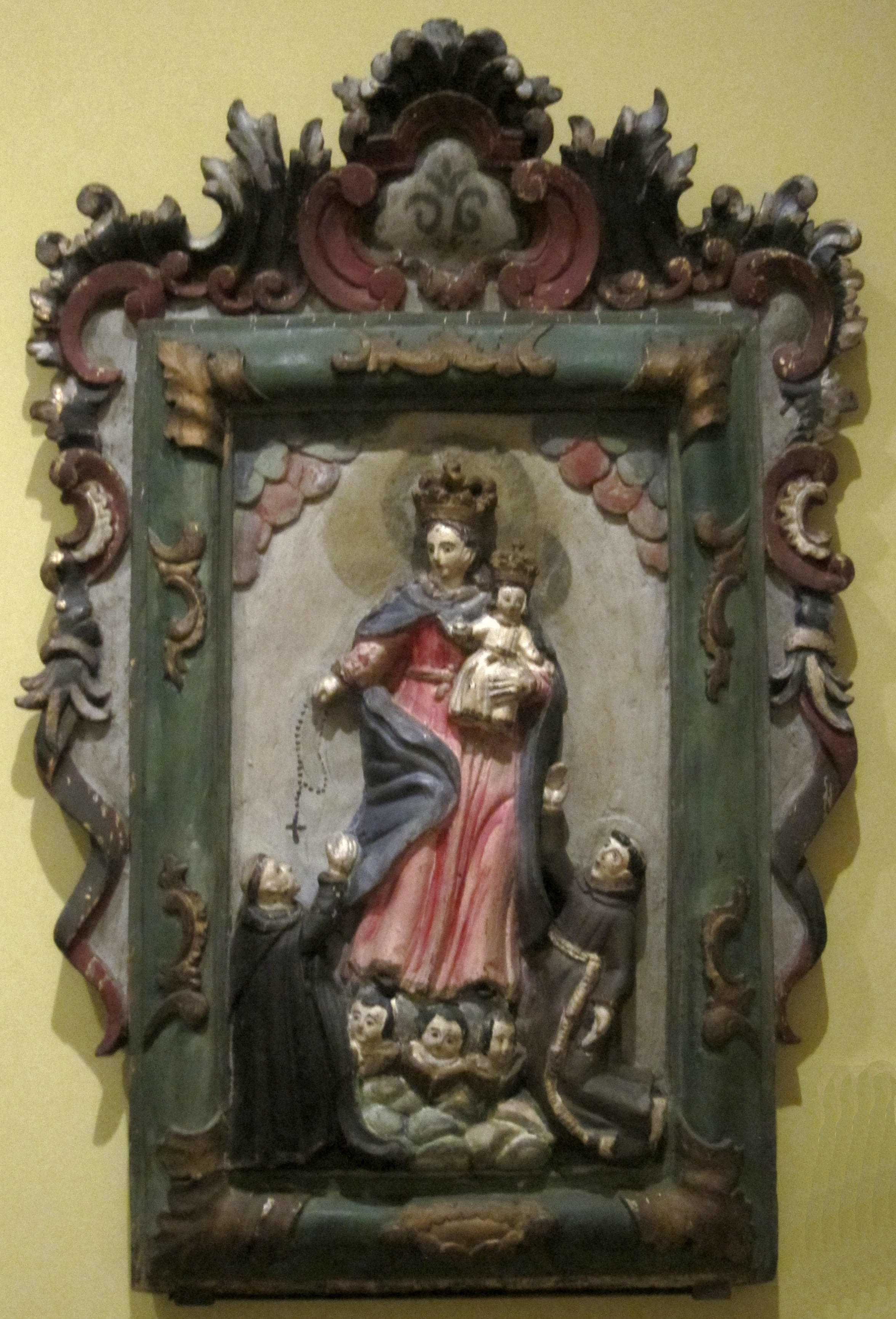 Our Lady of the Rosary, retablo from the Philippines, 19th-20th century, wood with pigment, Honolulu Academy of Arts